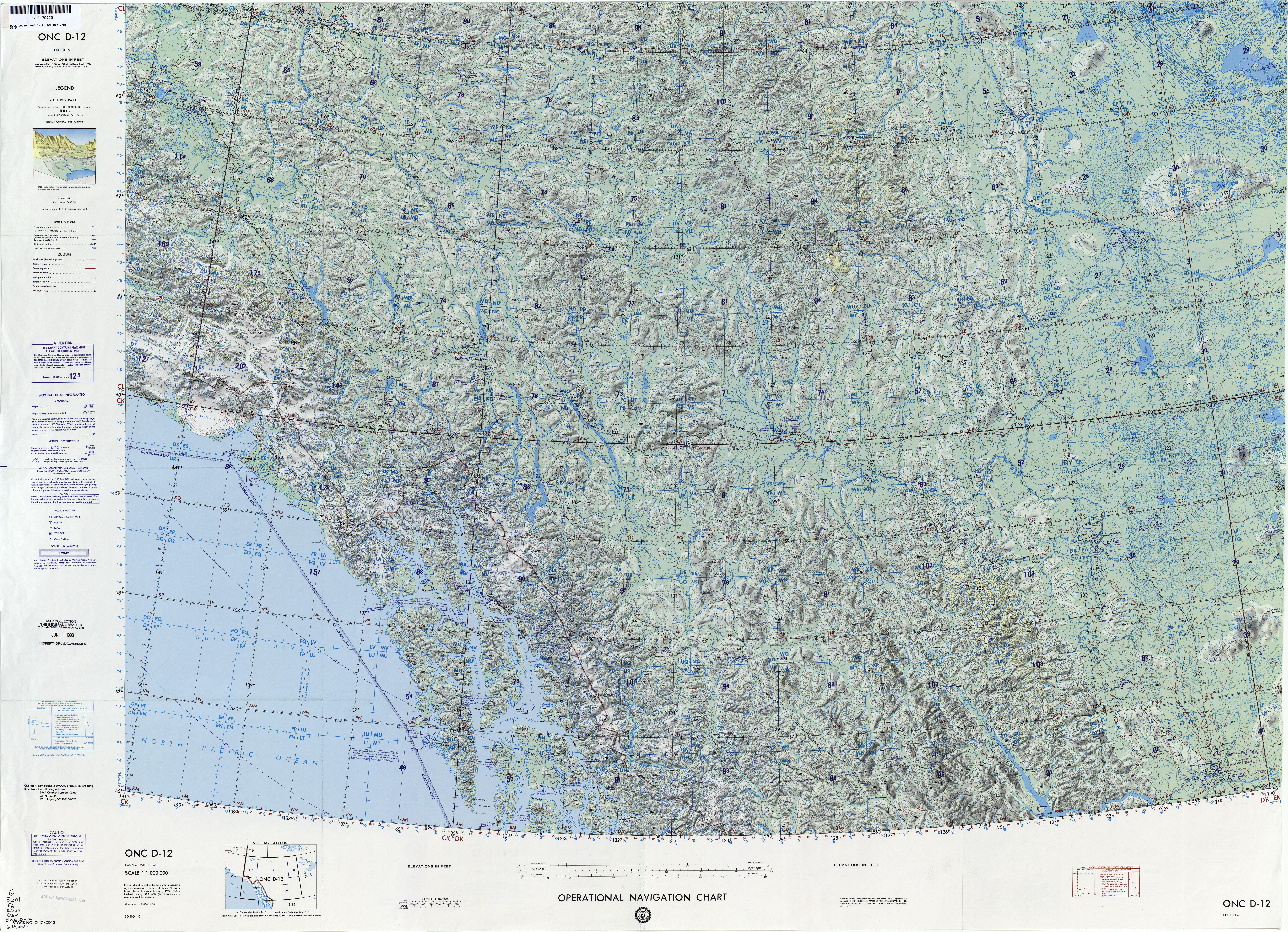 1:1,000,000 scale Operational Navigation Chart, Sheet D-12, 6th edition. Covers Alaska, Canada. Lambert Conformal Conic Projection. Standard Parallels 57 20N and 62 40N.